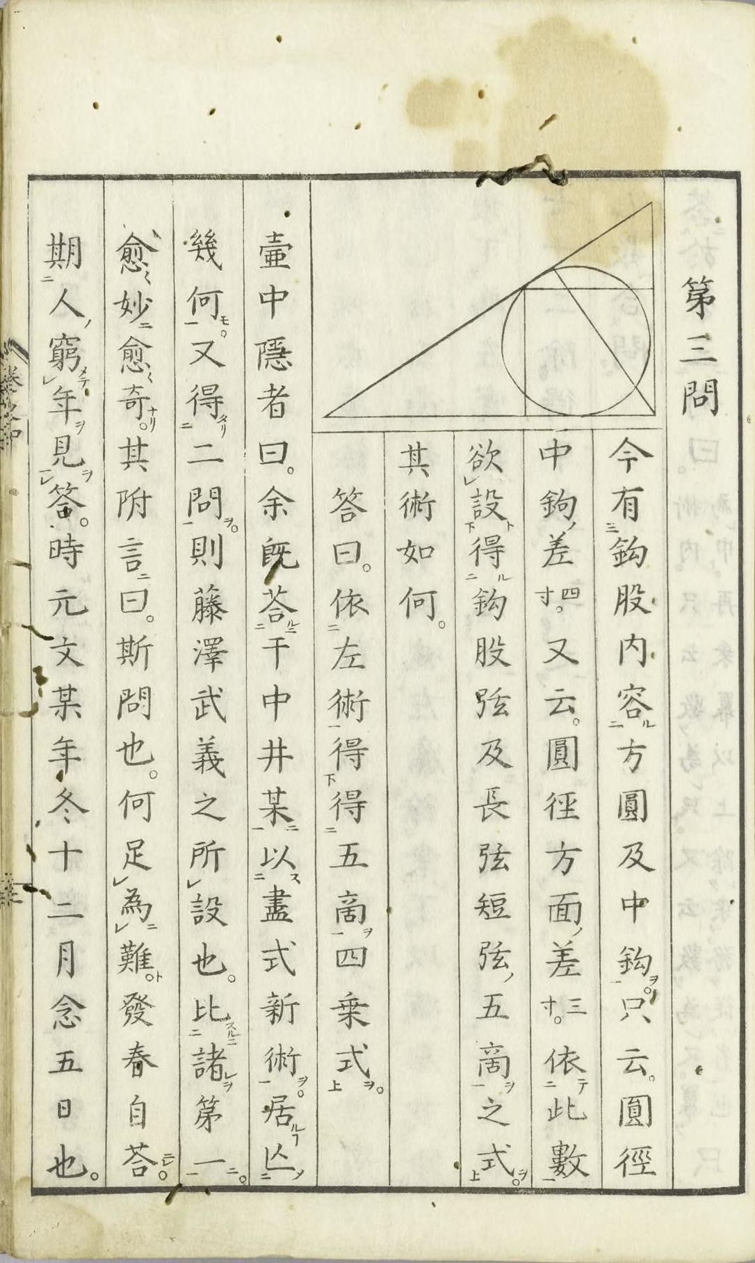 Question 3 of the 1775 book Sanpou Shojo